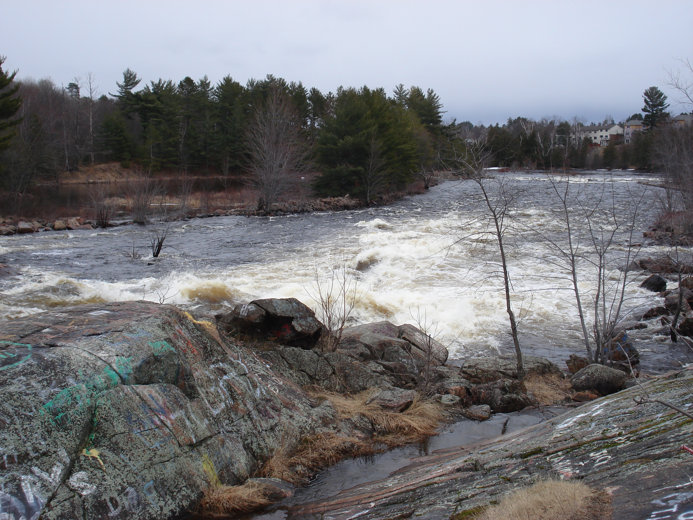 The Petawawa River, as it runs through the town of Petawawa, Ontario, Canada.